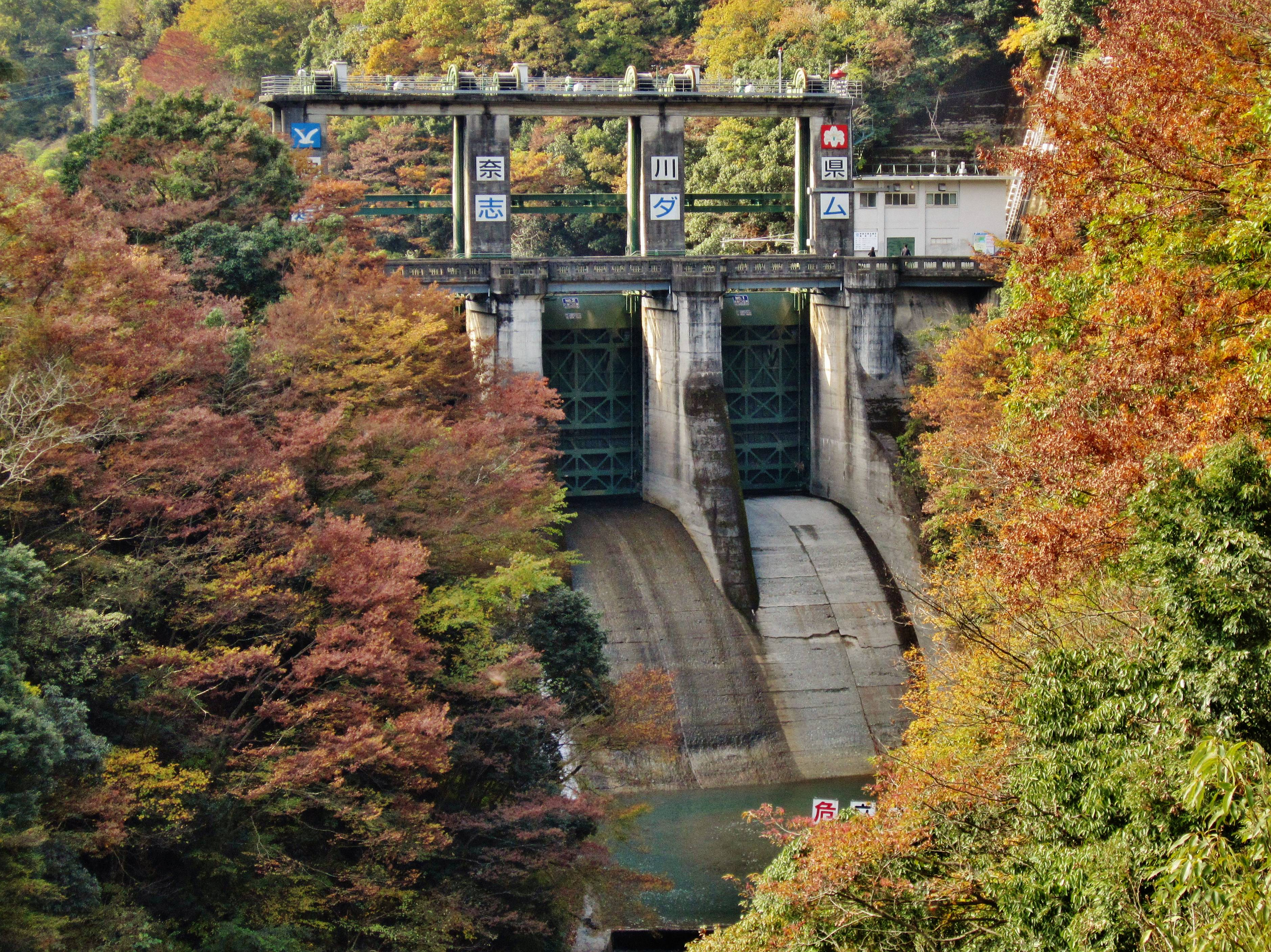 Dōshi Dam.